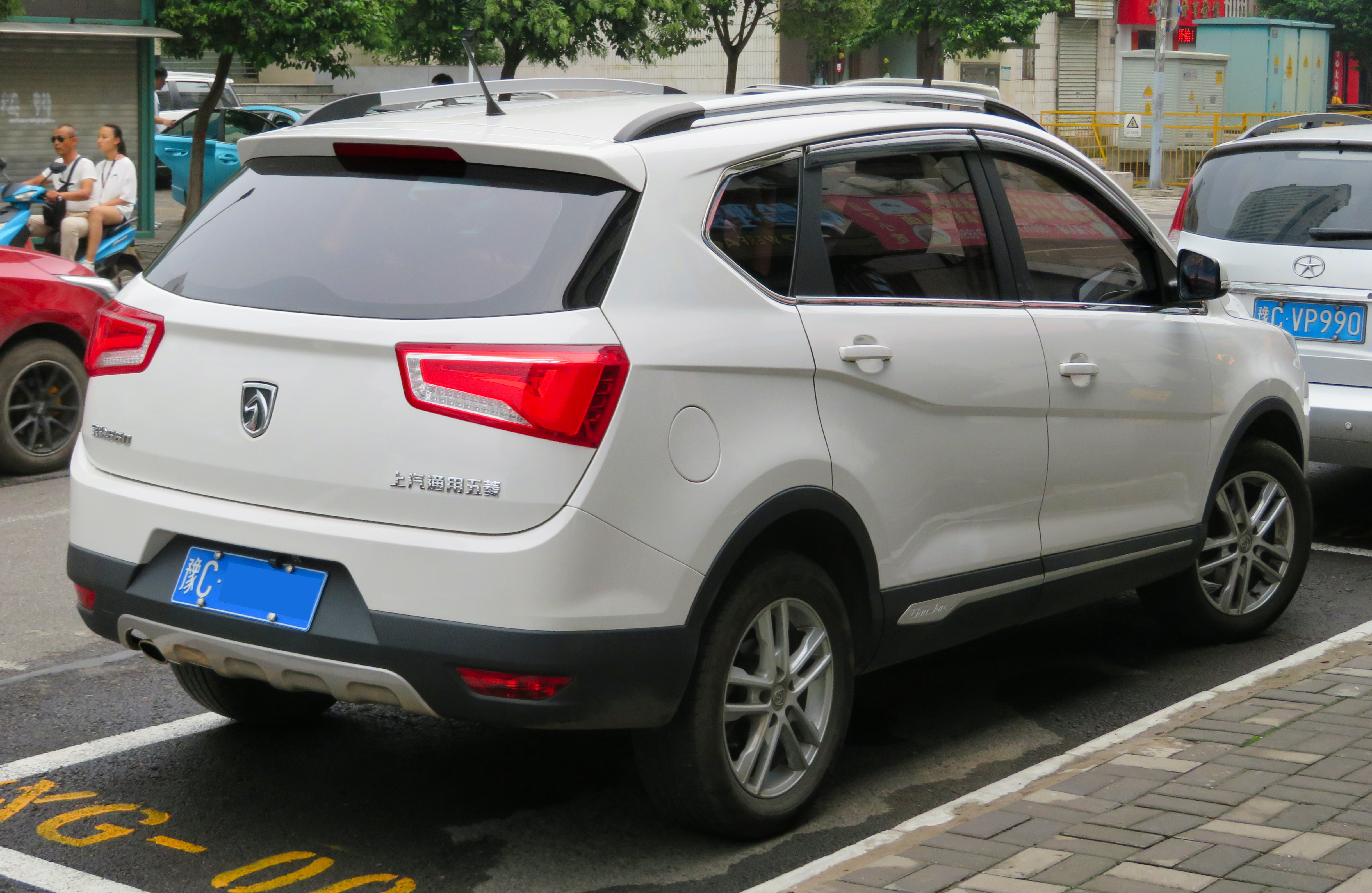 A 2017 Baojun 560 1.5L photographed in Luoyang, Henan province, China